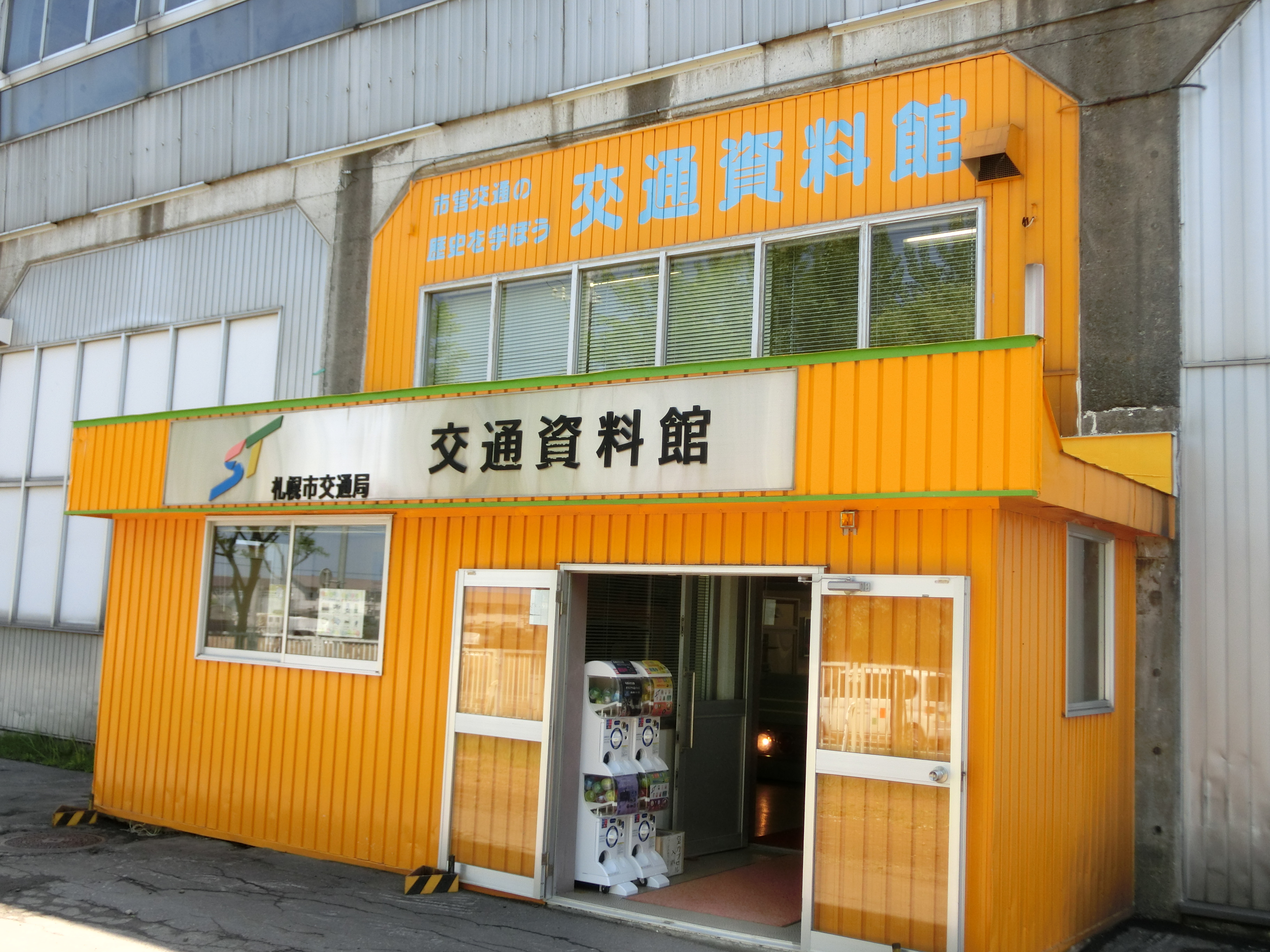 Sapporo Transportation Museum